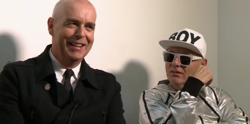 English electronic pop duo Pet Shop Boys at an interview in 2013. Screencapped at 07:27 in the source video.